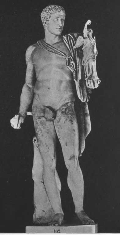 Diomedes with the paladium